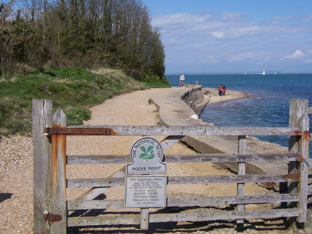 Footpath along the shore to Nodes Point Coastal path.